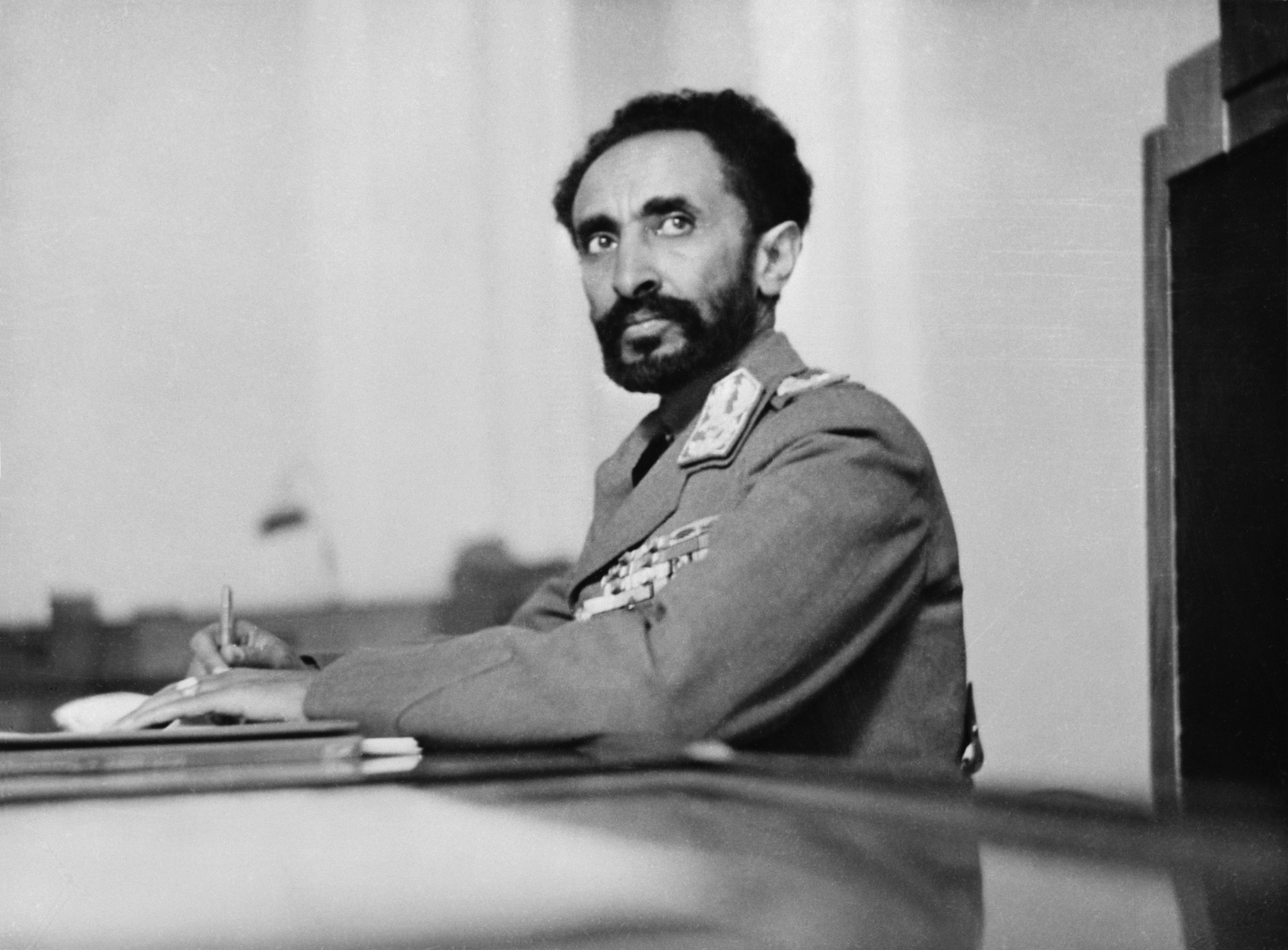 Addis Ababa, Ethiopia. Haile Selassie, Emperor of Ethiopia, in his study at the palace. Haile Selassie was crowned Emperor on 2 November 1930 with the titles "King of Kings", "Lord of Lords", "Conquering Lion of the Tribe of Judah", "Elect of God". He took—as his regnal name—Haile Selassie I which translates to "Power of the Trinity". CALL NUMBER: LC-USW33- 019078-C